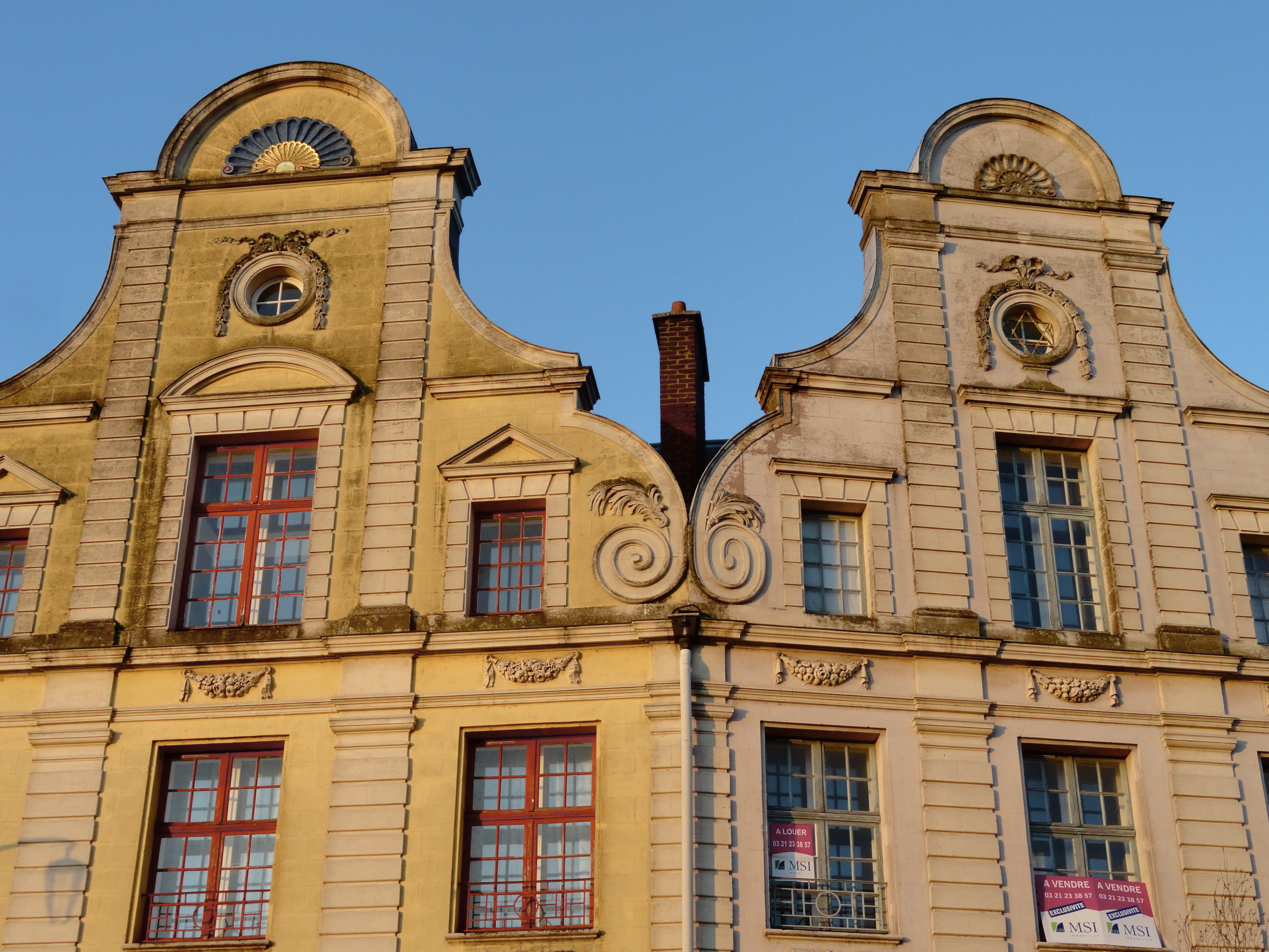 Facades of Flemish-Baroque style houses in Arras